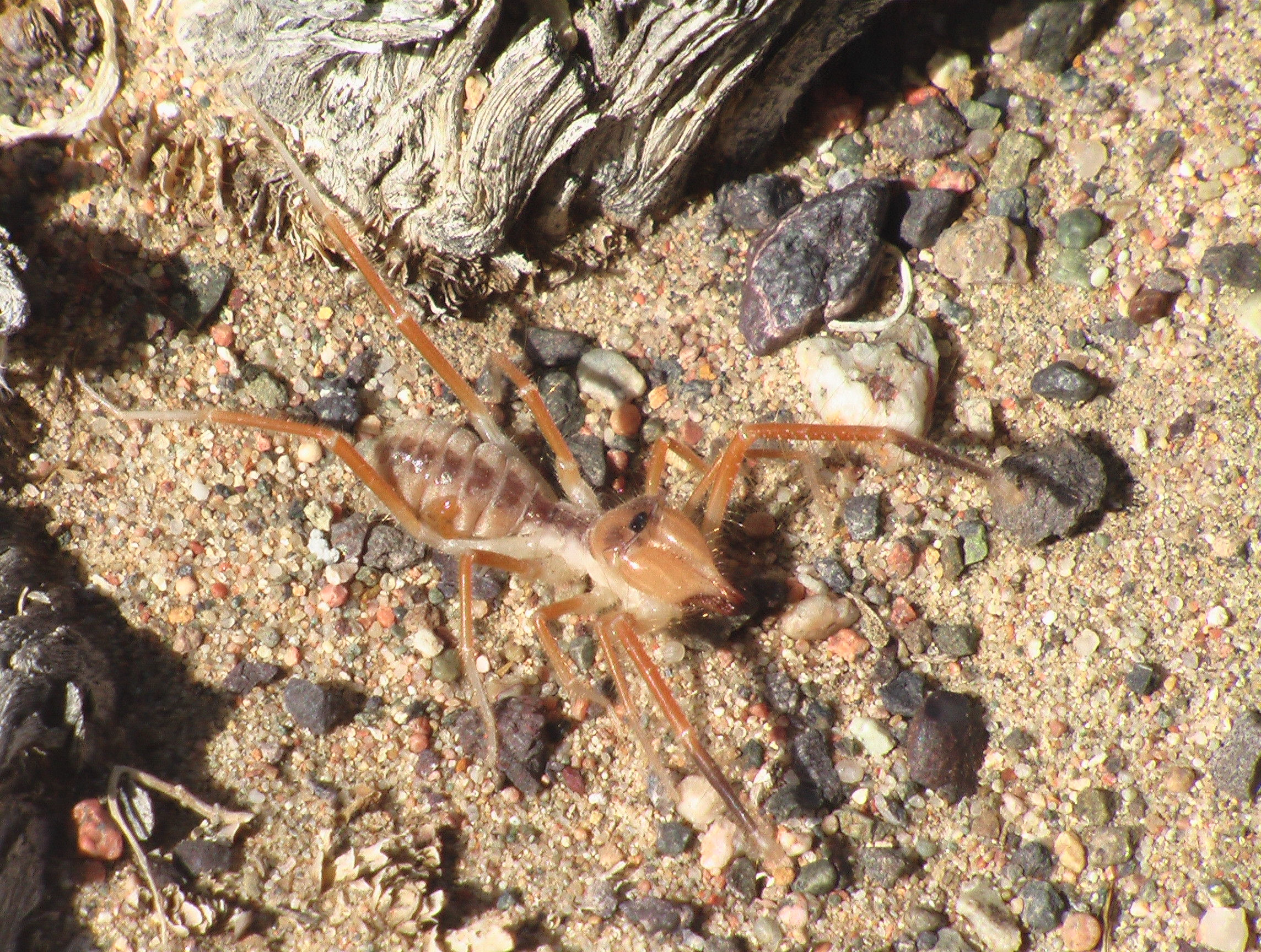 Solifugae, species undefined Mongolia, Gobi Desert